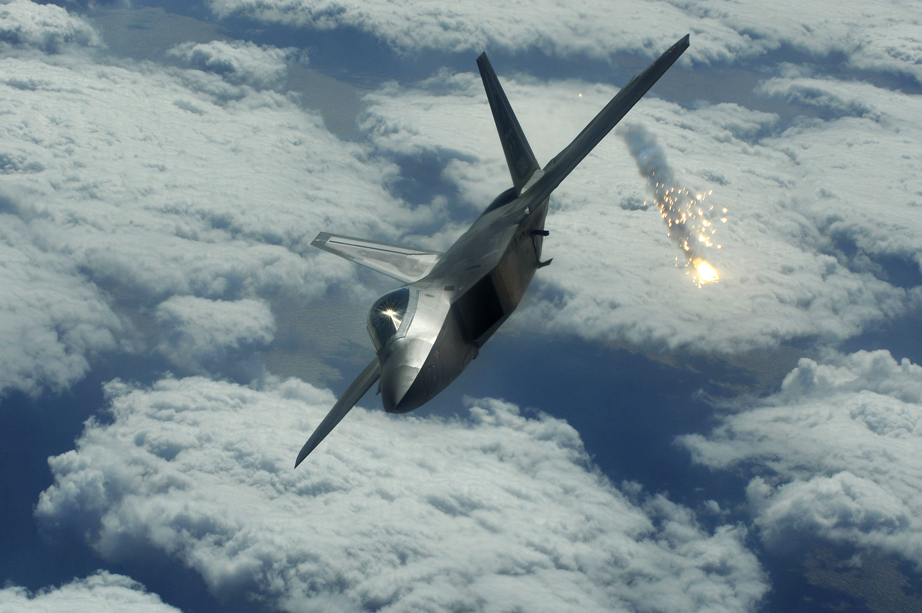 A F-22 from Kadena Air Base in Japan put out Flare during a training flight.